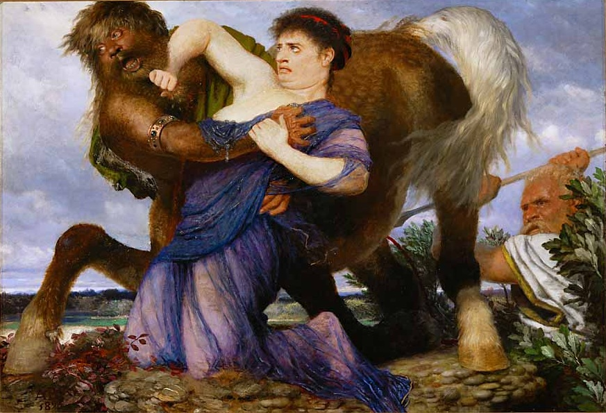 from Ovid's Metamorphoses